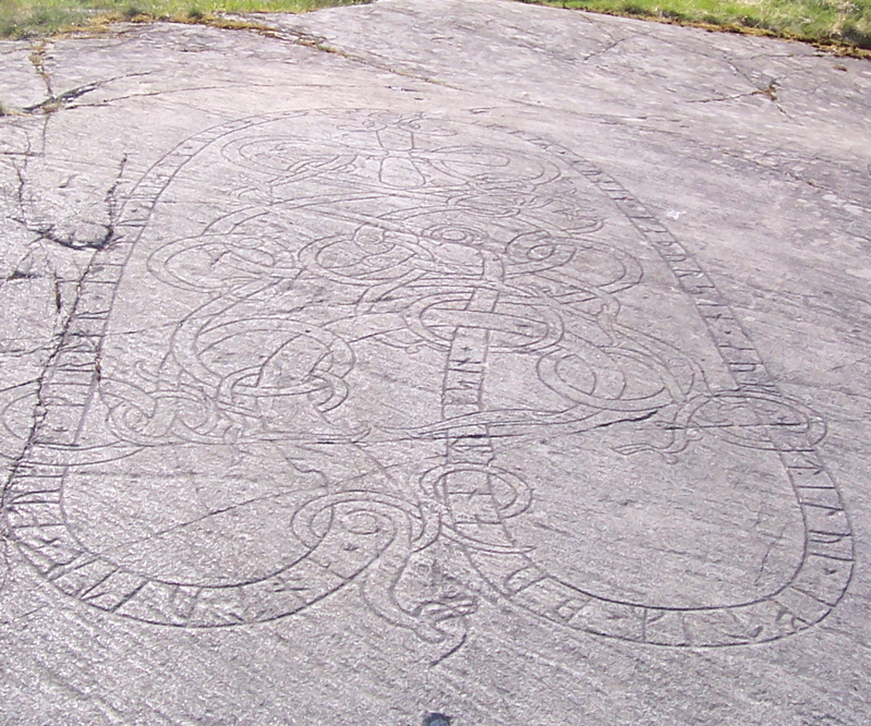 Image of a rune stone in Sweden, Uppland Runic Inscription #80.